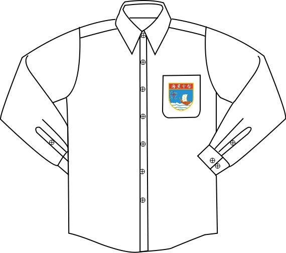 Estrela Do Mar School Uniform